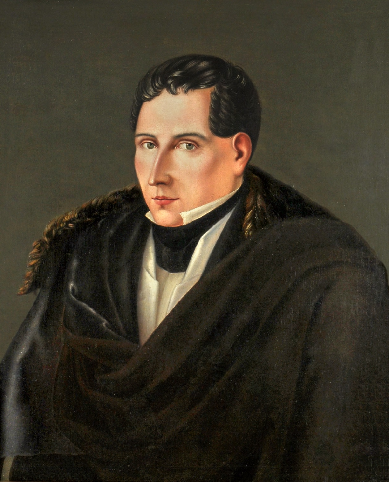 Portrait of Diego Portales Palazuelos (1793-1837)